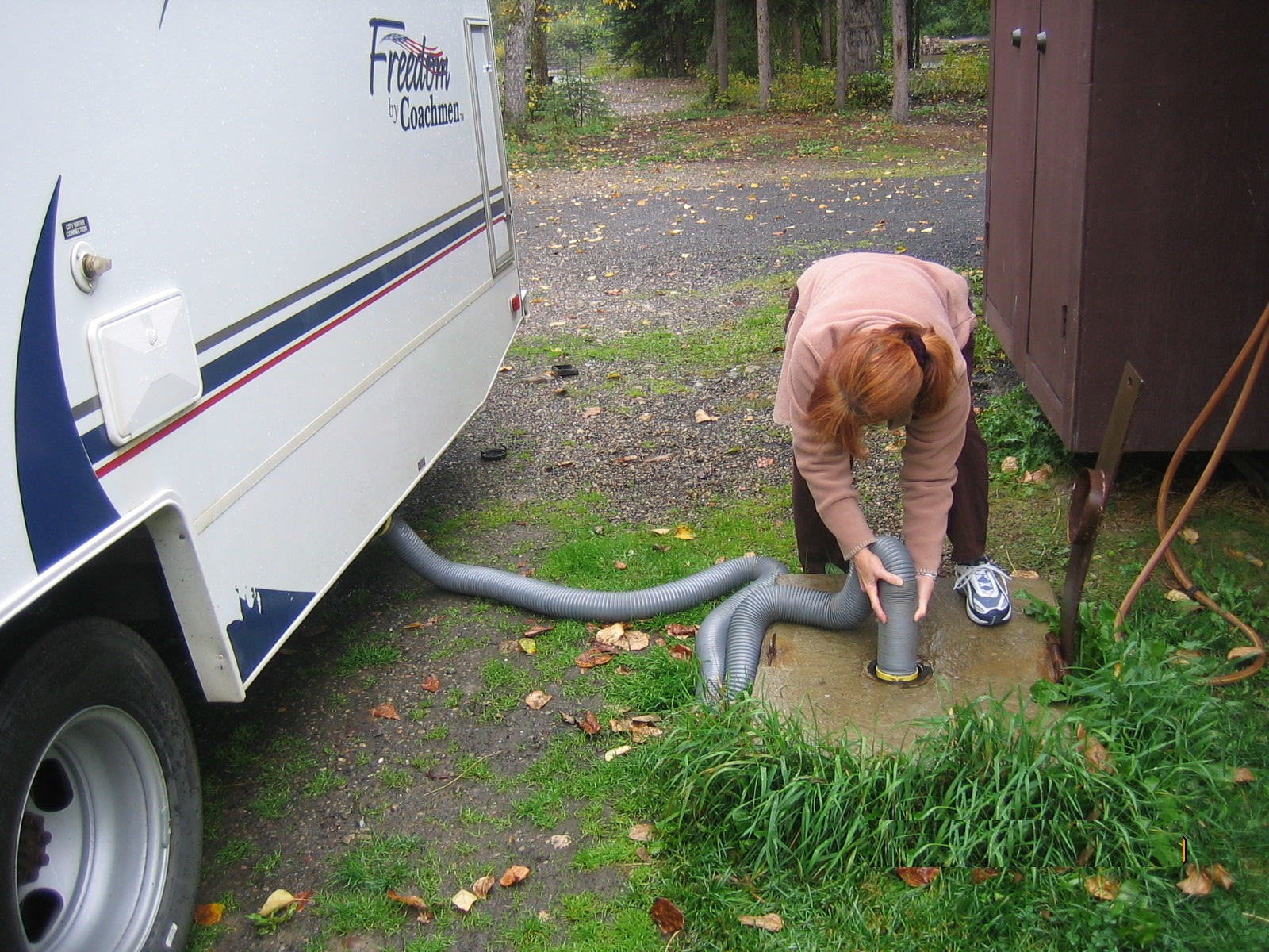 Photo of a person dumping the RV waste tanks at a dump station in Canada, 2005